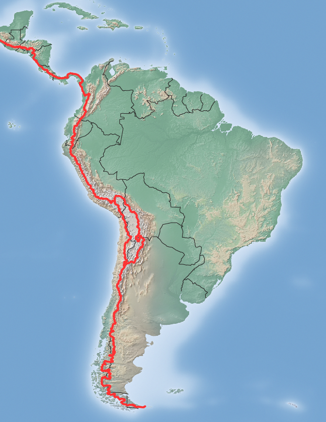 Map showing the major Continental Divide of the Americas in Central and South America. Created with ArcExplorer and Adobe Illustrator, based on Natural Earth and HydroSHEDS data.